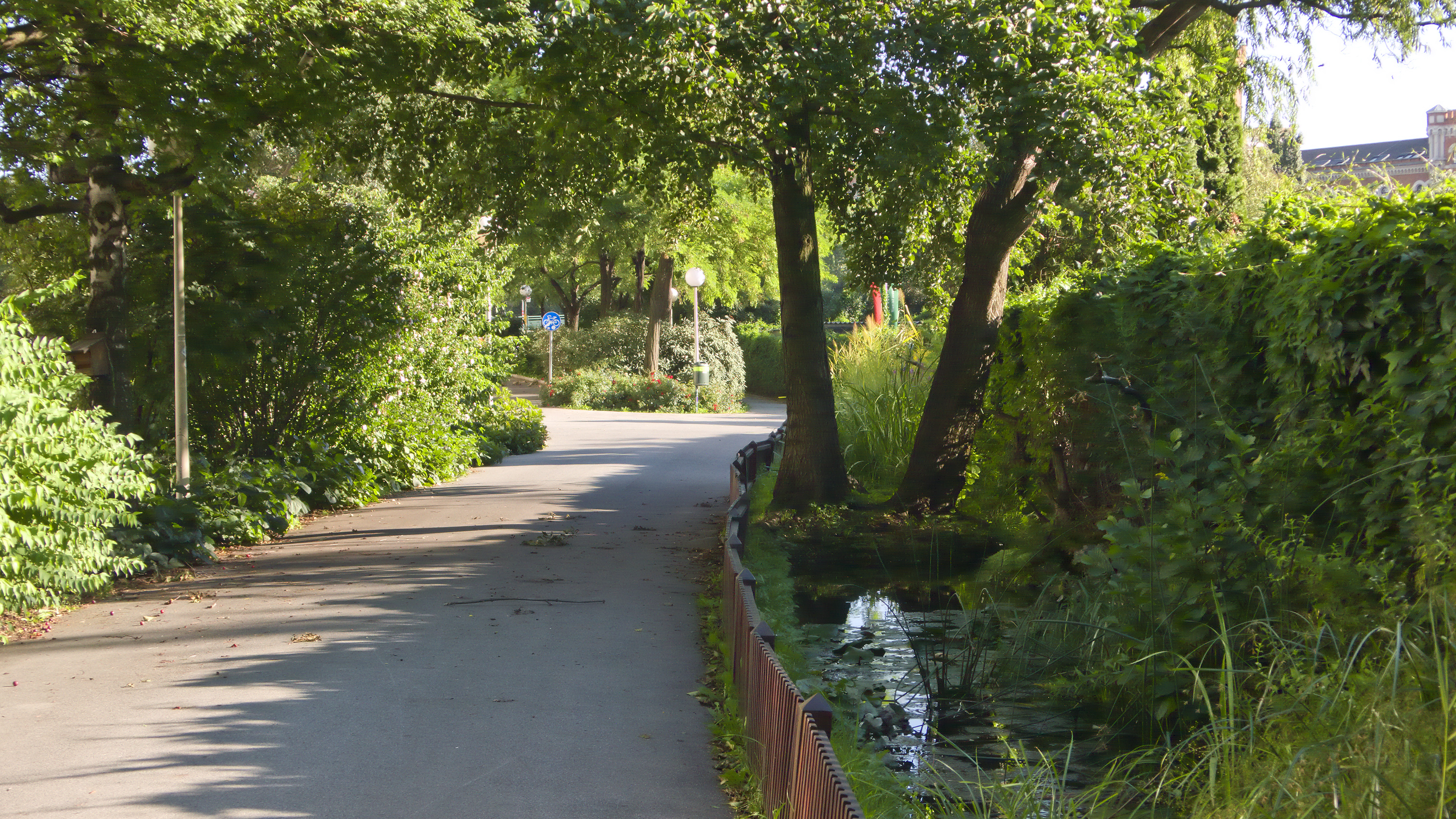 Public park Wettsteinpark in Vienna Leopoldstadt